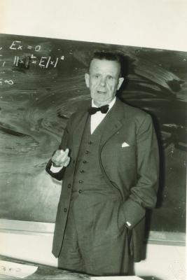 Mathematician Harald Cramér.